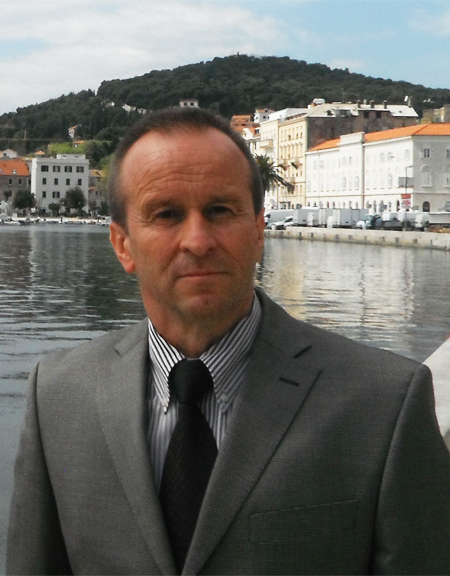 Picture of Mr Dragan Đokanović